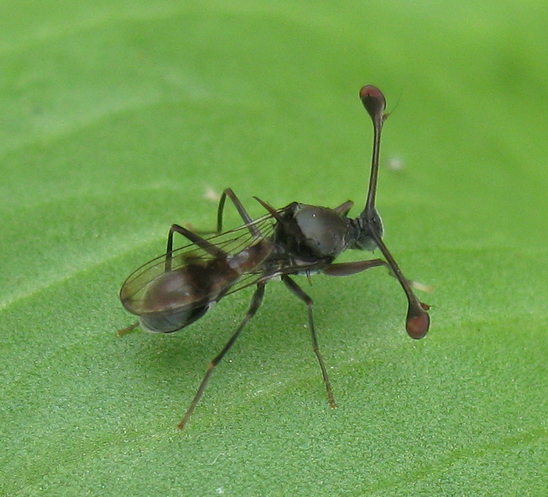 A stalk-eyed fly (Diasemopsis sp., family Diopsidae, Diptera) with its bizarre eyes, situated at the end of very long stalks.